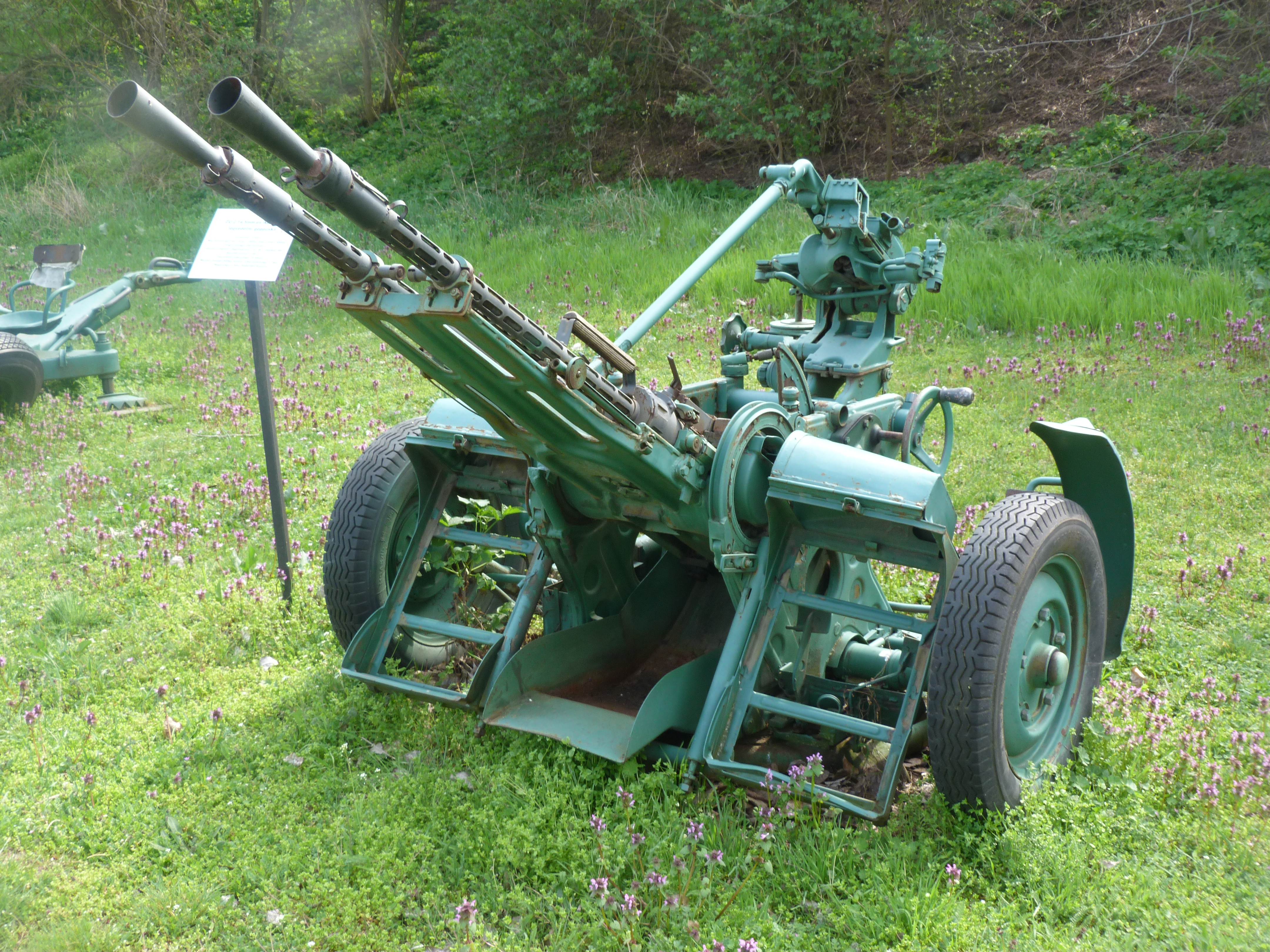 Live on the 31st of March, 2014. Komárom, Hungary. The Monostori Fortress. Open air exibition of the military equipement of the Hungarian People's Army. Photos of the parts and the fortress itself in the Metapolisz DVD line. ©© Derzsi Elekes Andor, Budapest, 2014, You are authorised to use these photos and vids under Creative Commons – even for commercial, for profit purposes. Photos must be attributed to Derzsi Elekes Andor. All of the photos and vids in the Metapolisz DVD line are under Creative Commons and can be used even for commercial – for profit – purposes. Recommended Citation Derzsi Elekes Andor: Metapolisz DVD line